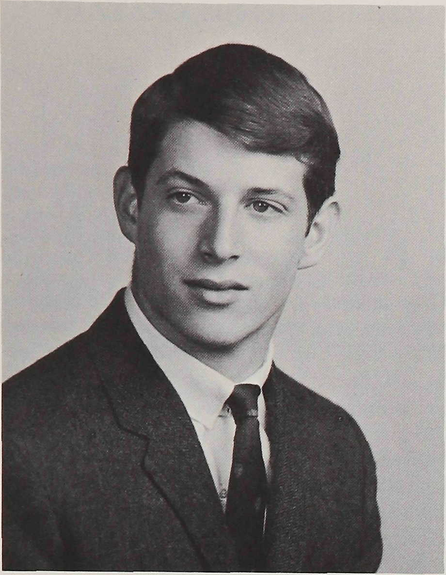 Al Gore in the 1965 edition of the Albanian, a yearbook produced by St. Albans School (Washington, D.C.).